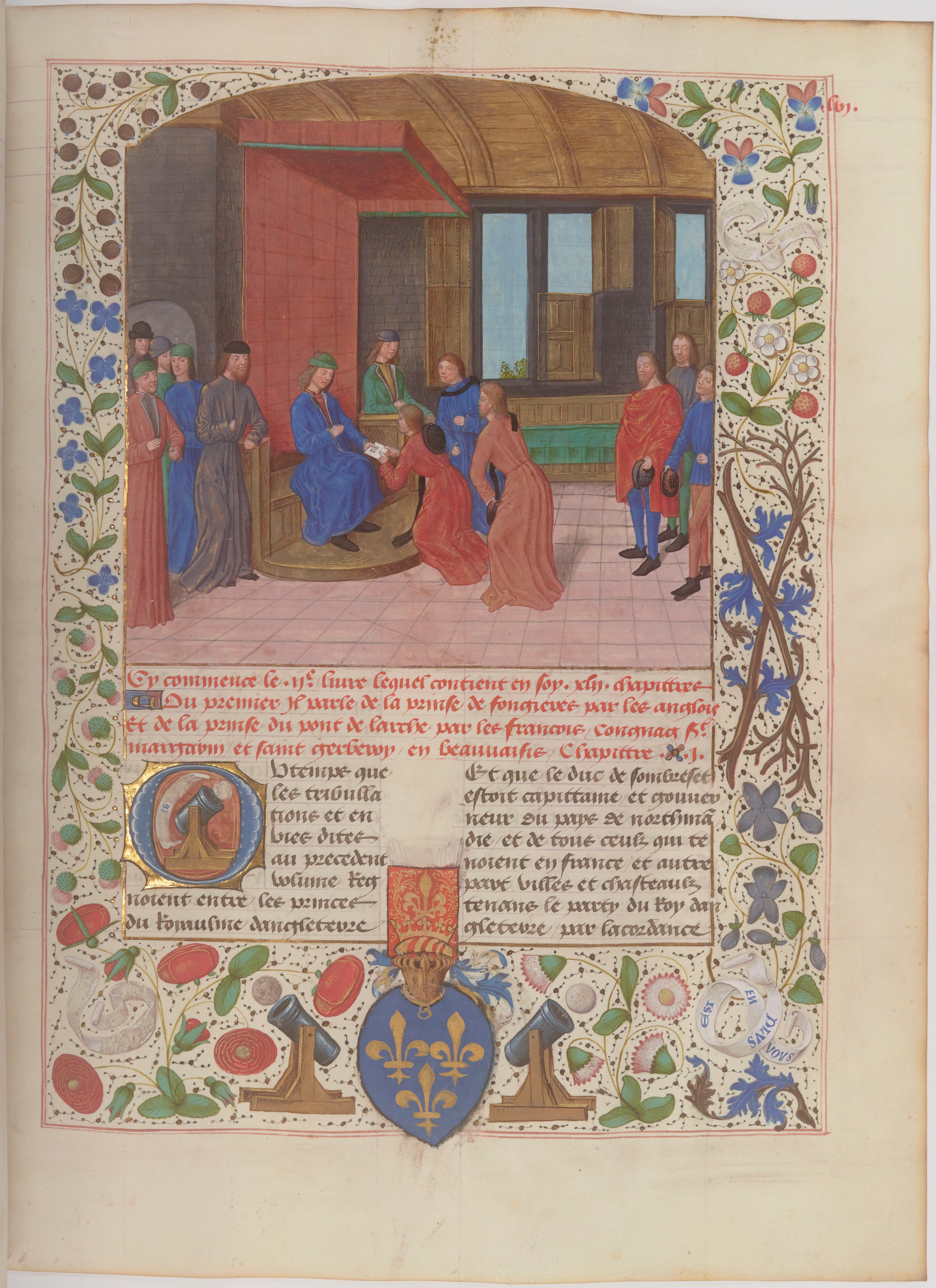 Edmund Beaufort surrenders towns and hostages to Charles VII at Rouen during the Hundred Years' War. Illuminated manuscript page from Vol 6 of the Anciennes chroniques d'Angleterre by Jean de Wavrin.